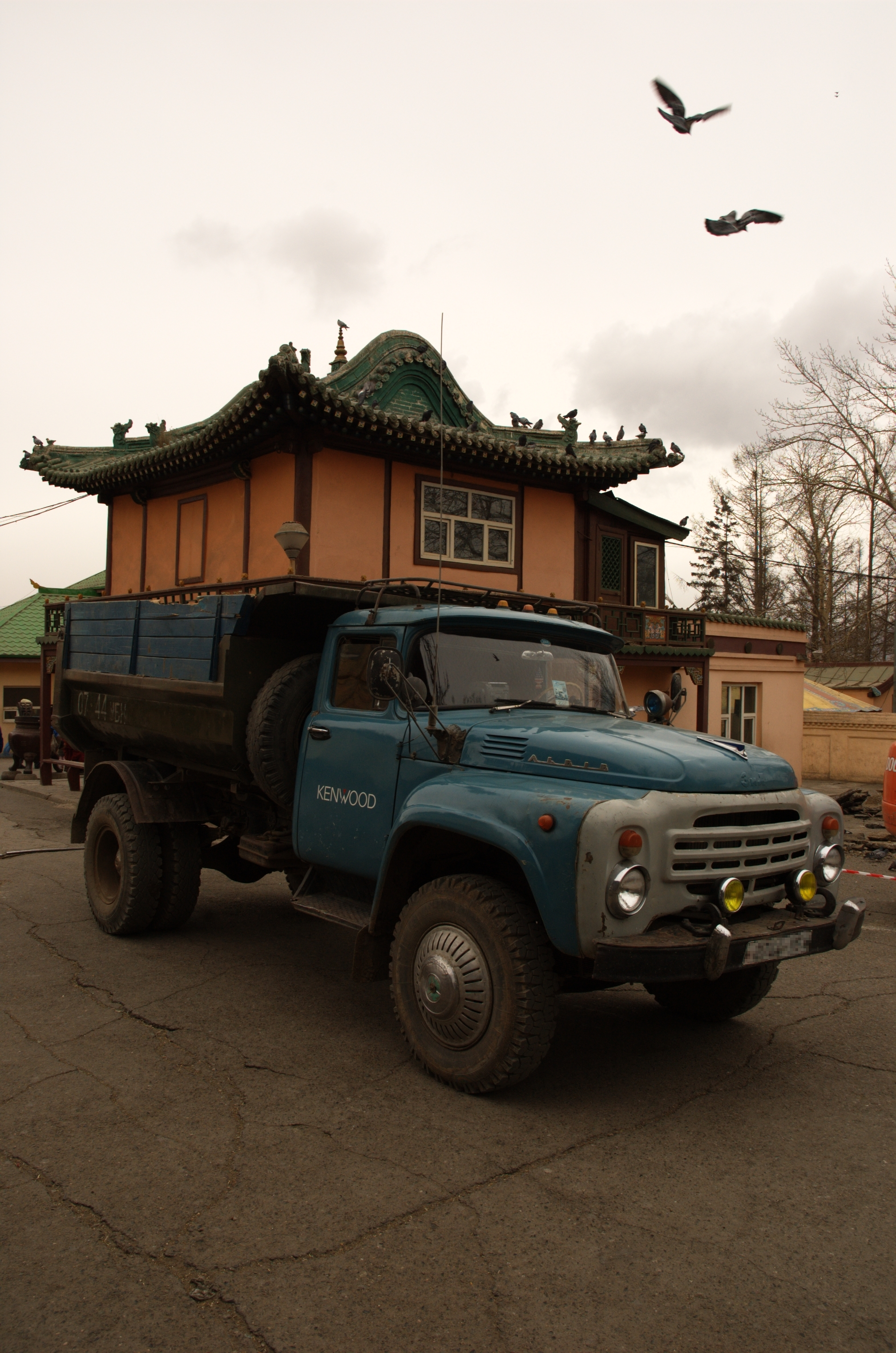 ZiL-130 truck in Ulan Bator.